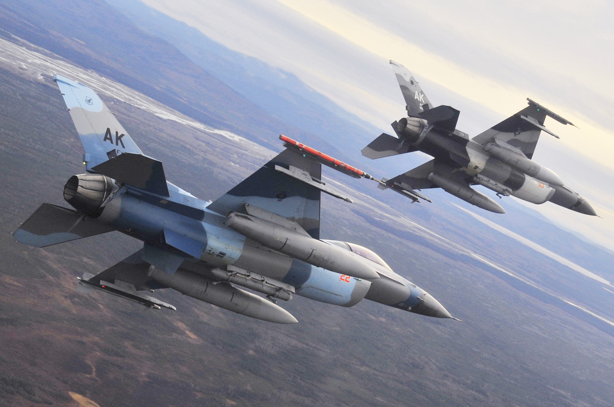 F-16 Fighting Falcon "Aggressors" fly over the Joint Pacific Alaska Range Complex during Red Flag-Alaska Oct. 8, 2009 at Eielson Air Force Base, Alaska.